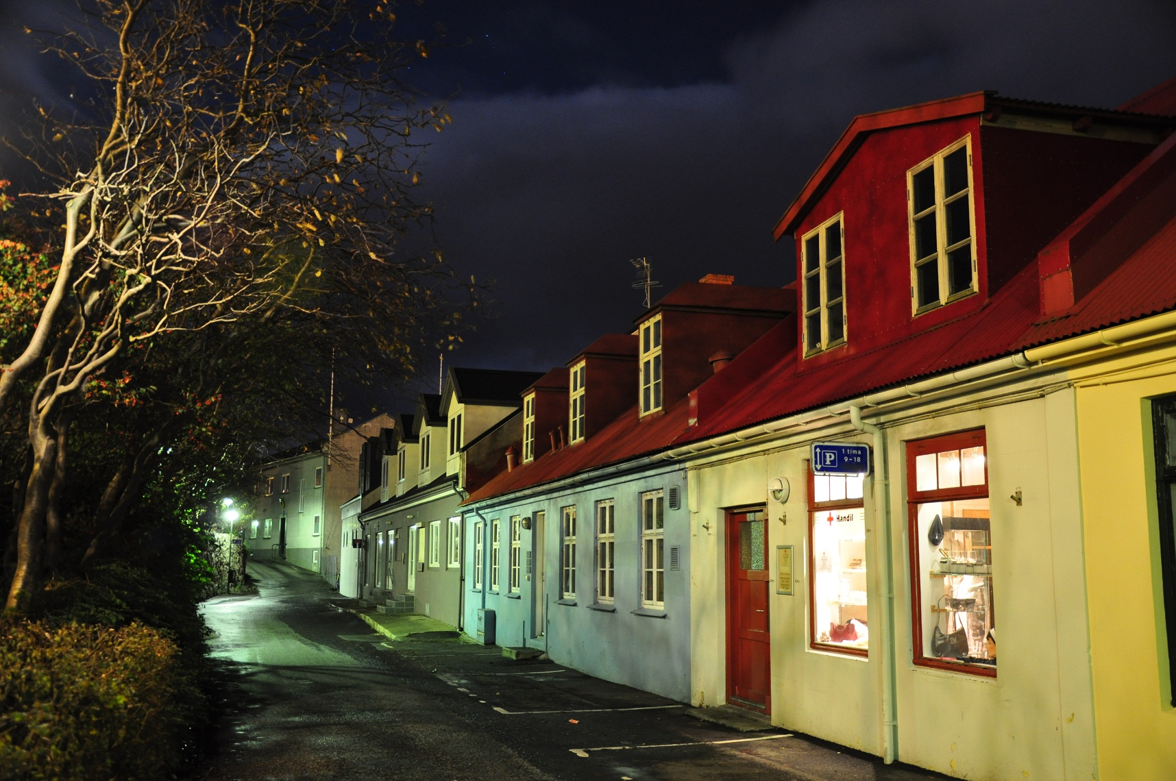 Bryggjubakki street at night, central Tórshavn.